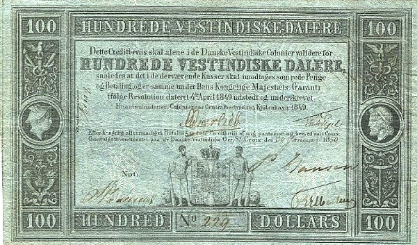 A banknote issued to circulate in the Danish West-Indies.